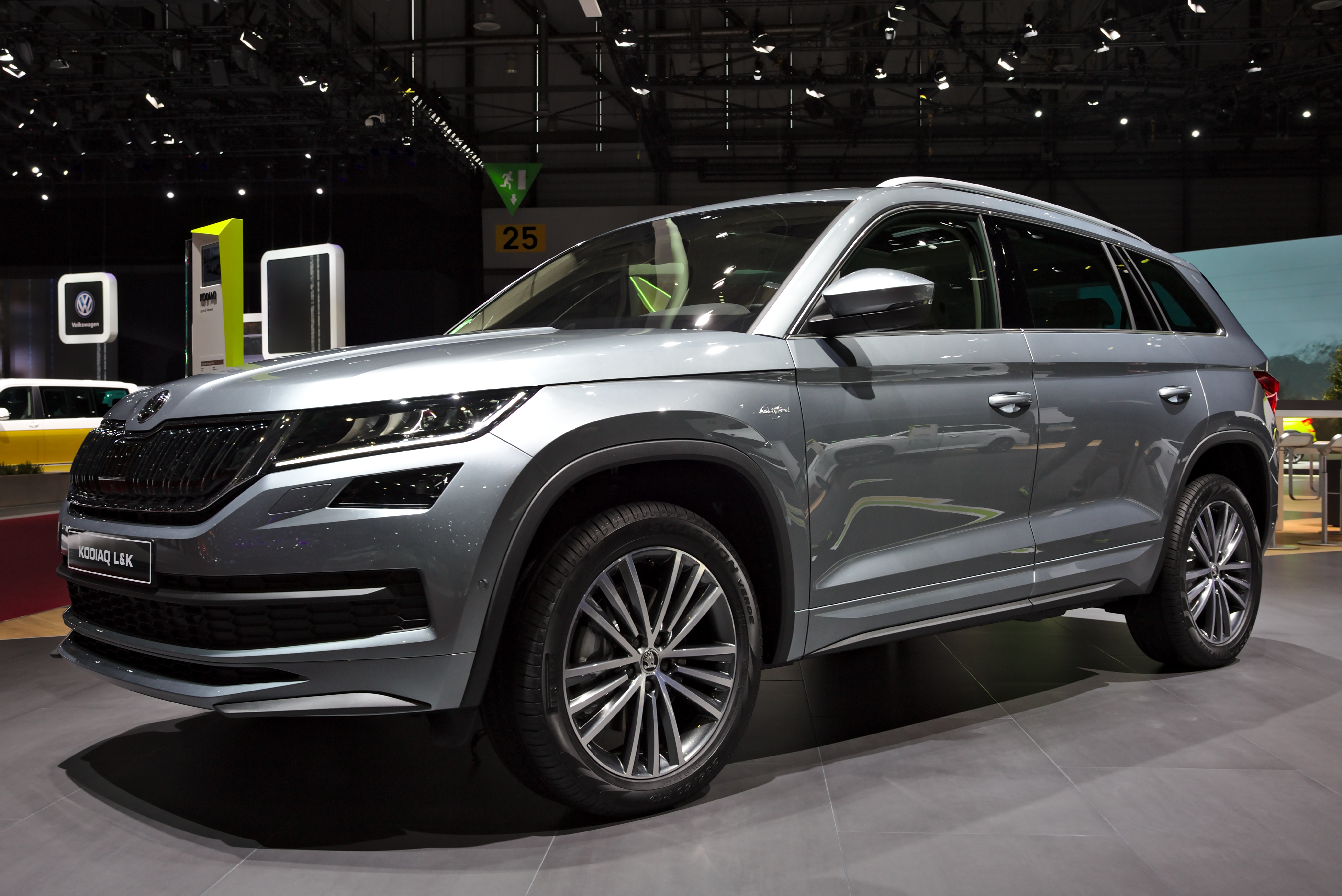 Škoda Kodiaq L&K at Geneva Motorshow 2018